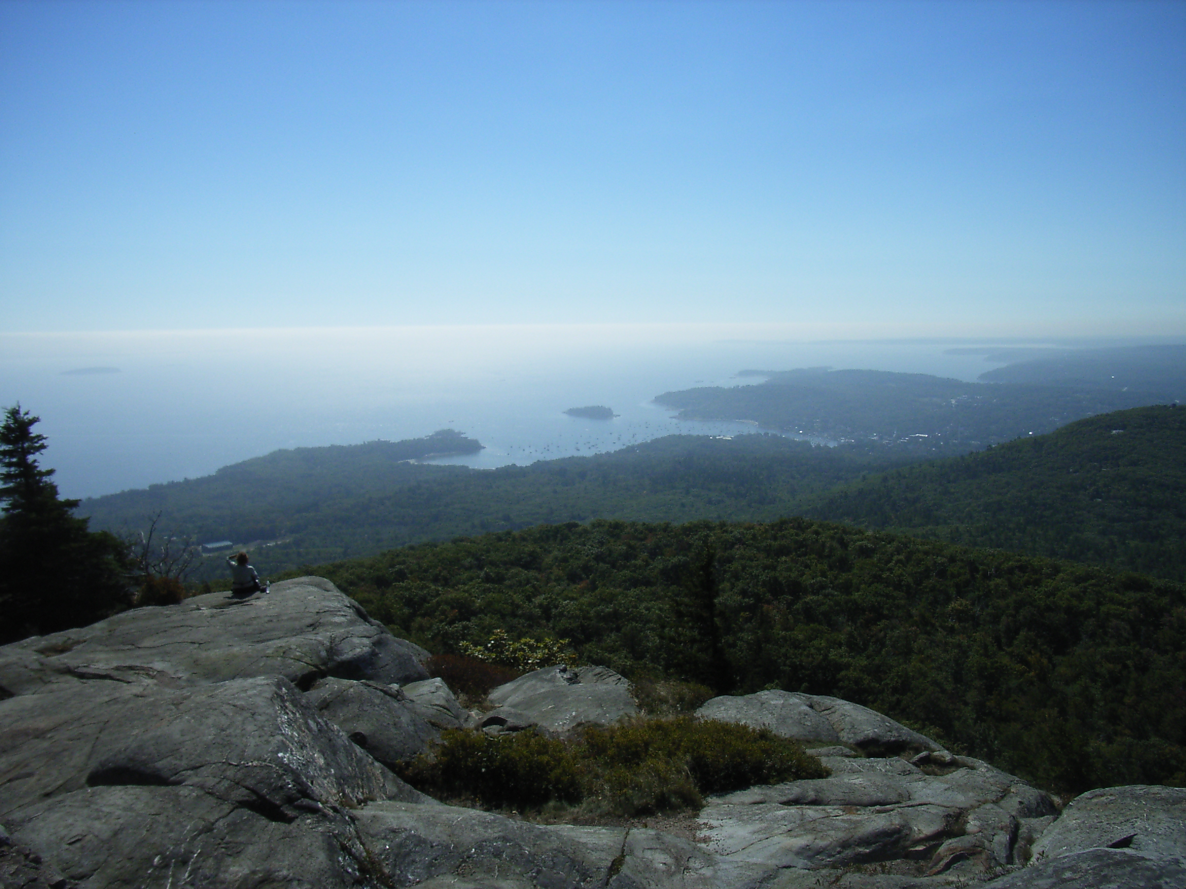 Camden, Maine, photographed from Ocean Outlook in Camden Hills State Park (on Megunticook Trail and Tablelands Trail)